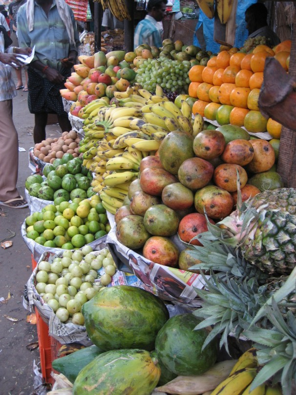 An image of a fruit stand with various tropical fruits such as mangoes and pineapple.